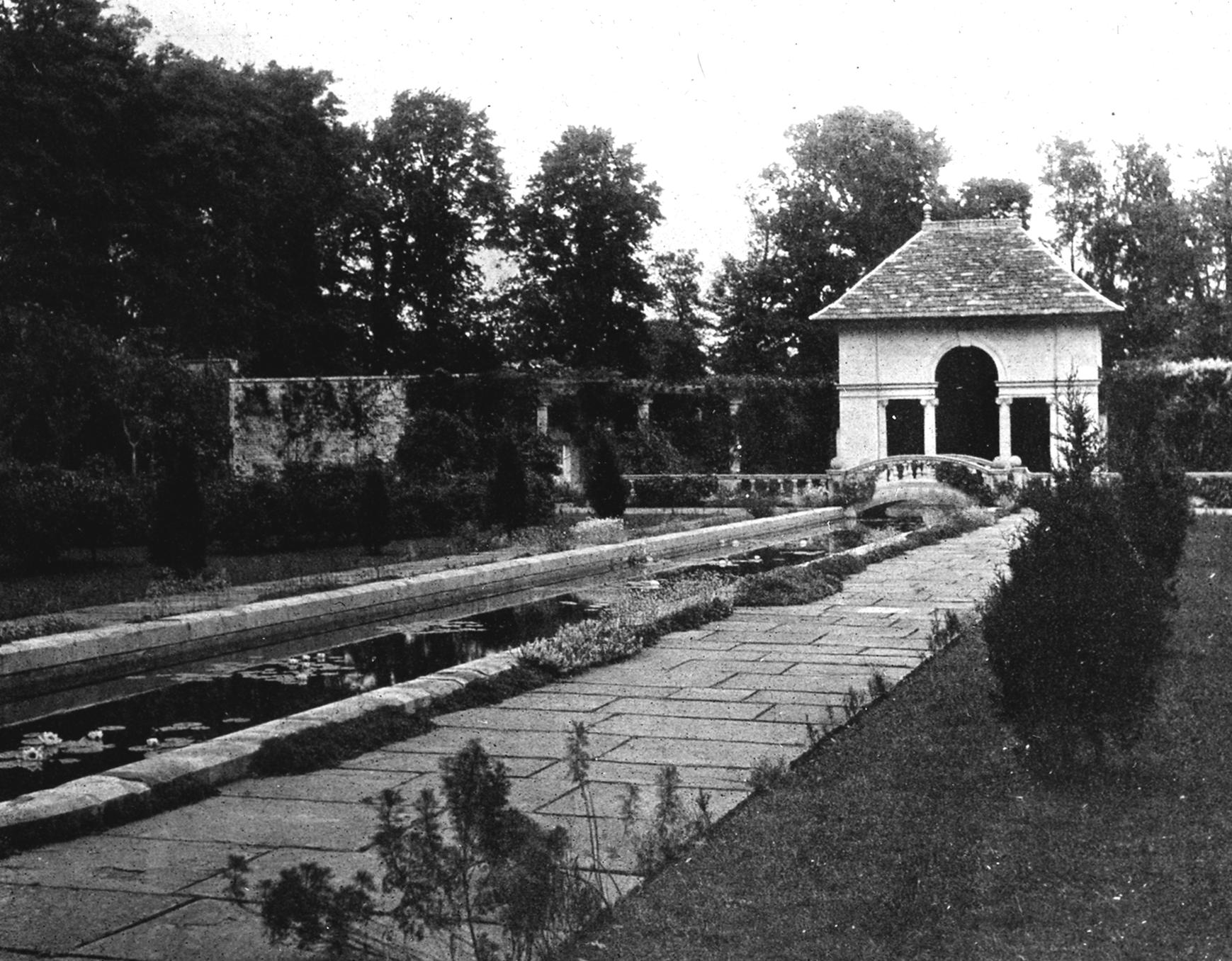 Original Collection: Arthur Peck Photograph Collection (P99) Item Number: P099_C_343 You can find this image by searching for the item number by clicking here. Want more? You can find more digital resources online. We're happy for you to share this digital image within the spirit of The Commons; however, certain restrictions on high quality reproductions of the original physical version may apply. To read more about what “no known restrictions” means, please visit the Special Collections & Archives website, or contact staff at the OSU Special Collections & Archives Research Center for details.